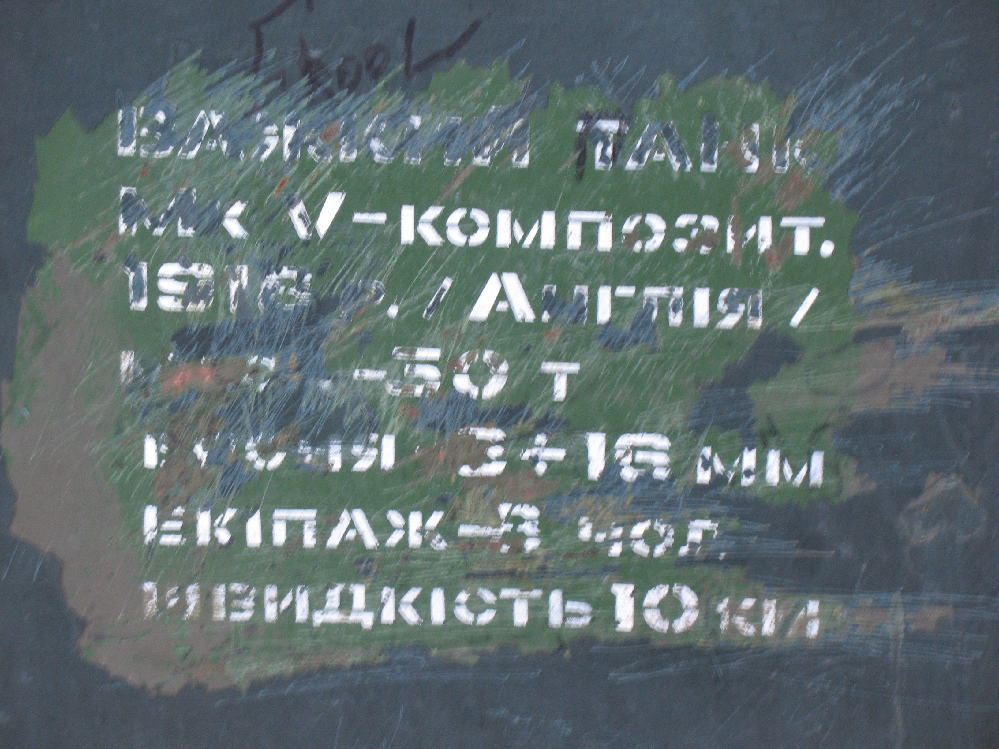 English tank Mk V on Constitution Square in Kharkov. Tablet.